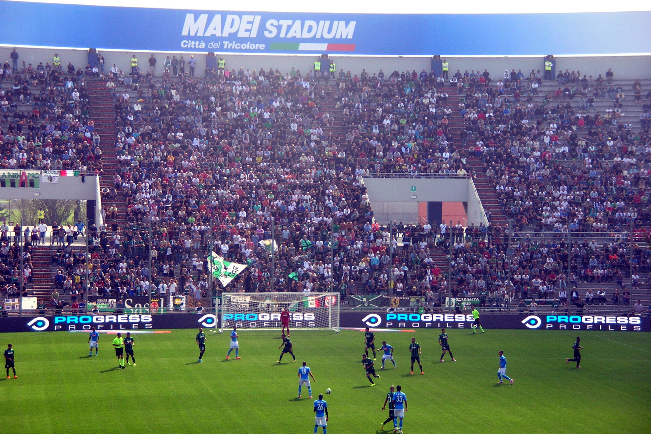 Sassuolo-Napoli 0-1 of September 28, 2014.